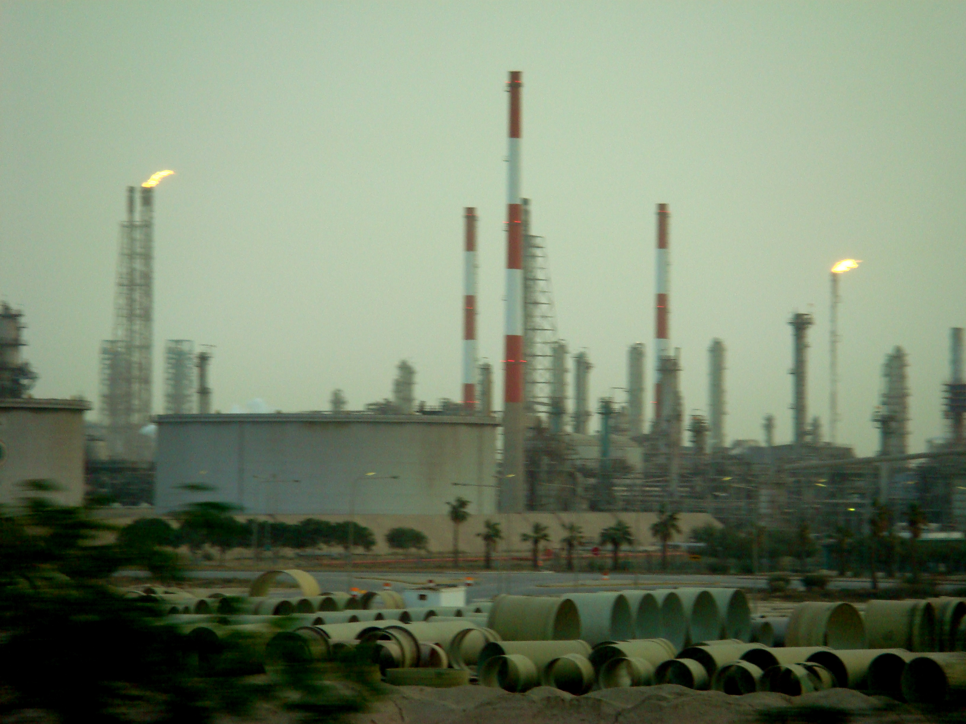 Jubail.